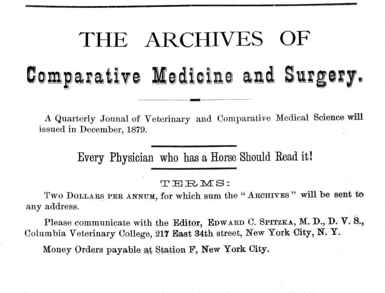 Press info about E. C. Spitzka's medical journal. Retouched & cropped